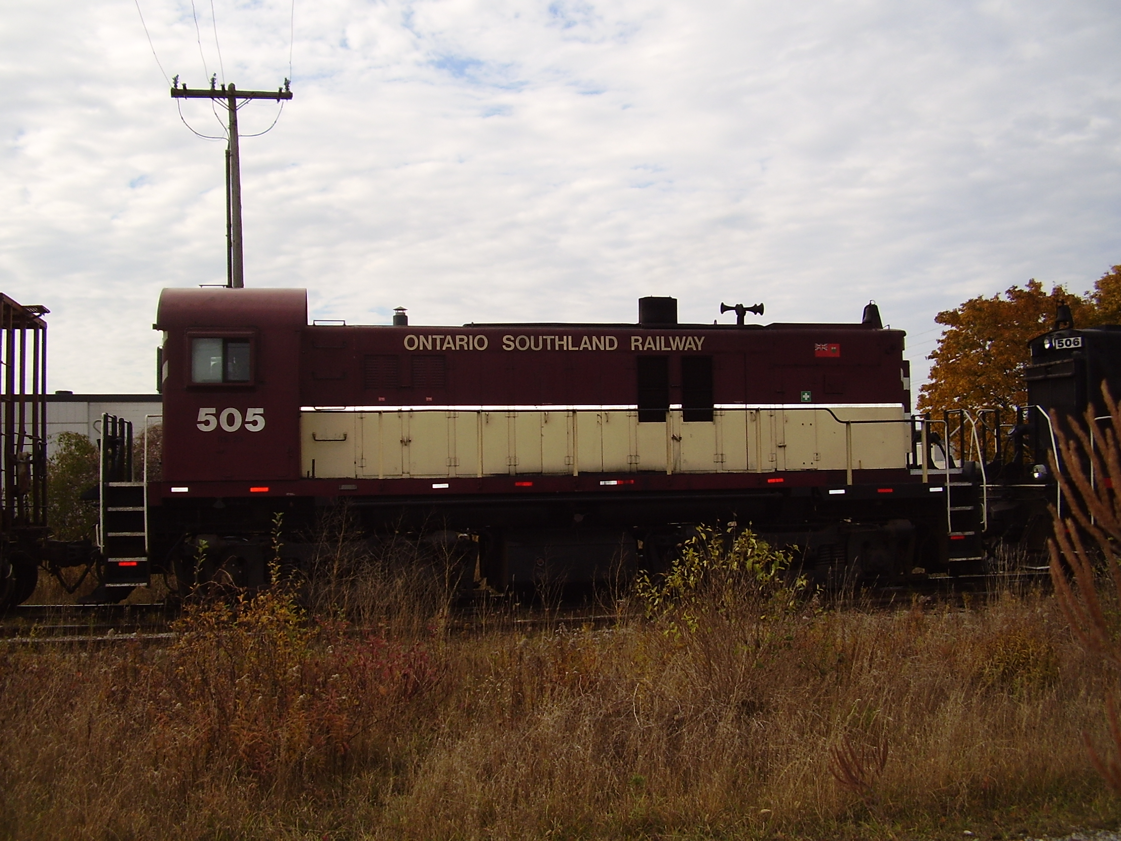 Diesel locomotive #505 of the Ontario Southland Railway, in service/parked as part of a dual-engine setup attached to a freight train; Guelph, Ontario, 2009 10 23. Side-view, full-length.